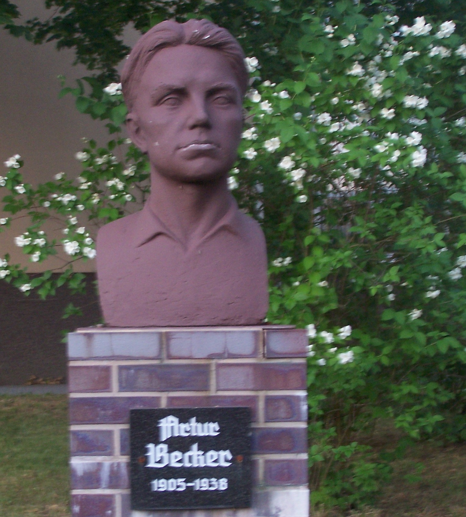 Monument "Artur Becker" in Trattendorf (Spremberg)/Germany